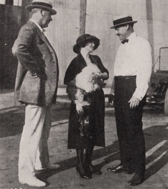 Still from the production of the American romantic comedy film First Love (1921) with director Major Maurice Campbell, Constance Binney, and Realart Pictures supervising director Elmer Harris, on page 78 of the October 8, 1921 Exhibitors Herald. Binney is holding a poodle. The caption lists the production as Beautiful Eyes but notes that it was Binney's first west coast film, indicating that it was First Love.